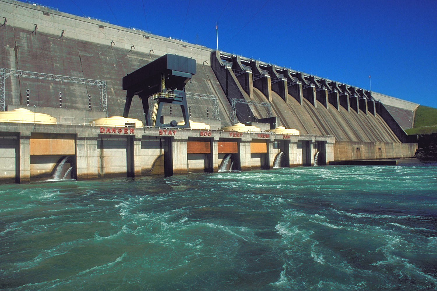 The Hartwell Dam on the Savannah River near Hartwell, Georgia, USA. This earthen dam is over 3 miles (4.8 km) long. This photograph shows only the concrete water-control and power-generation structure of the dam. The dam spans the border between Anderson County, South Carolina and Hart County, Georgia.